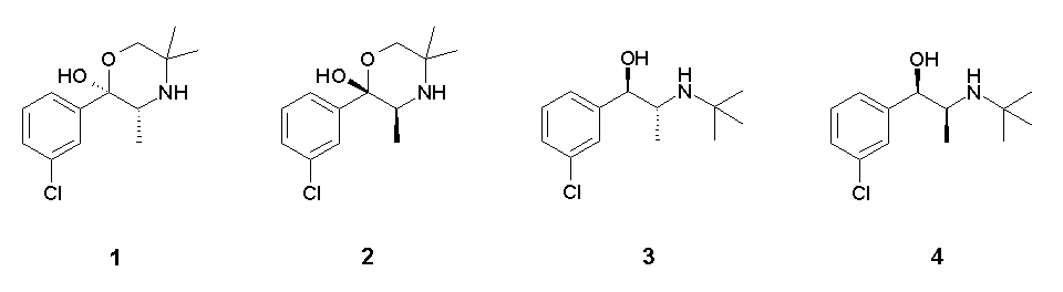 Metabolites of bupropion